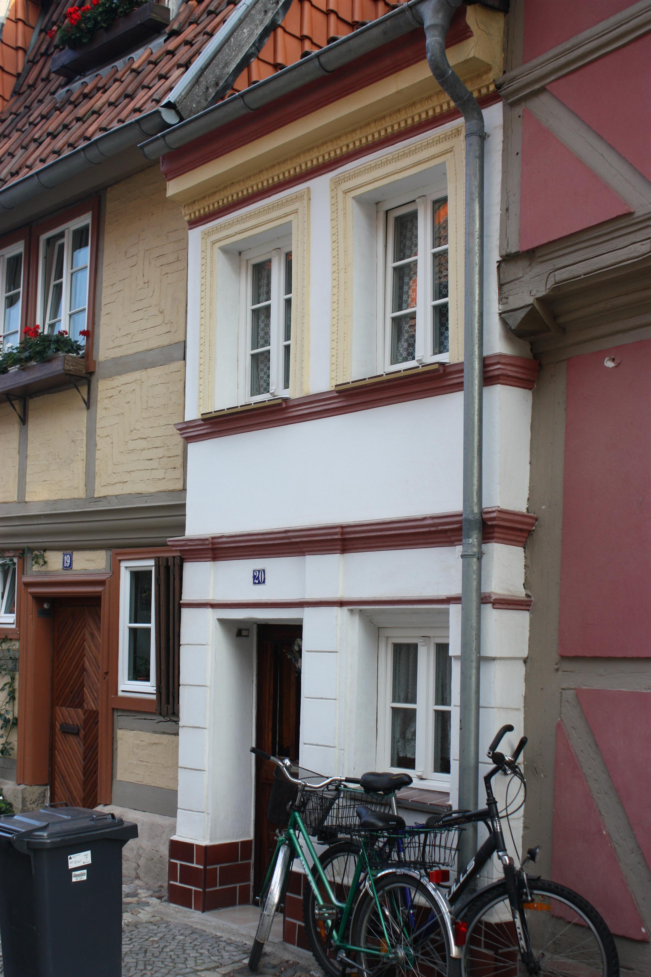 This is a photograph of an architectural monument.It is on the list of cultural monuments of Quedlinburg Wassertorstraße 20 (Quedlinburg)